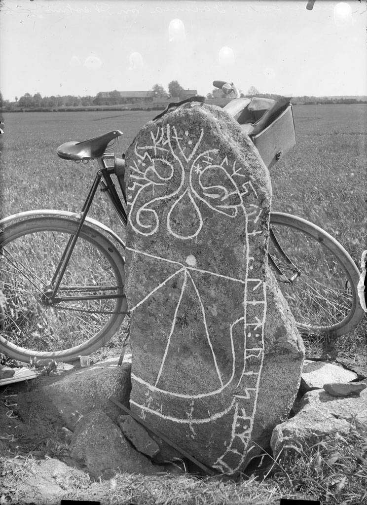 Bicycle leaning against a rune stone (Vs 17) in Råby. The inscription says: "Holmsten had the memorial raised in memory of Tidfrid, his wife, and in memory of himself.